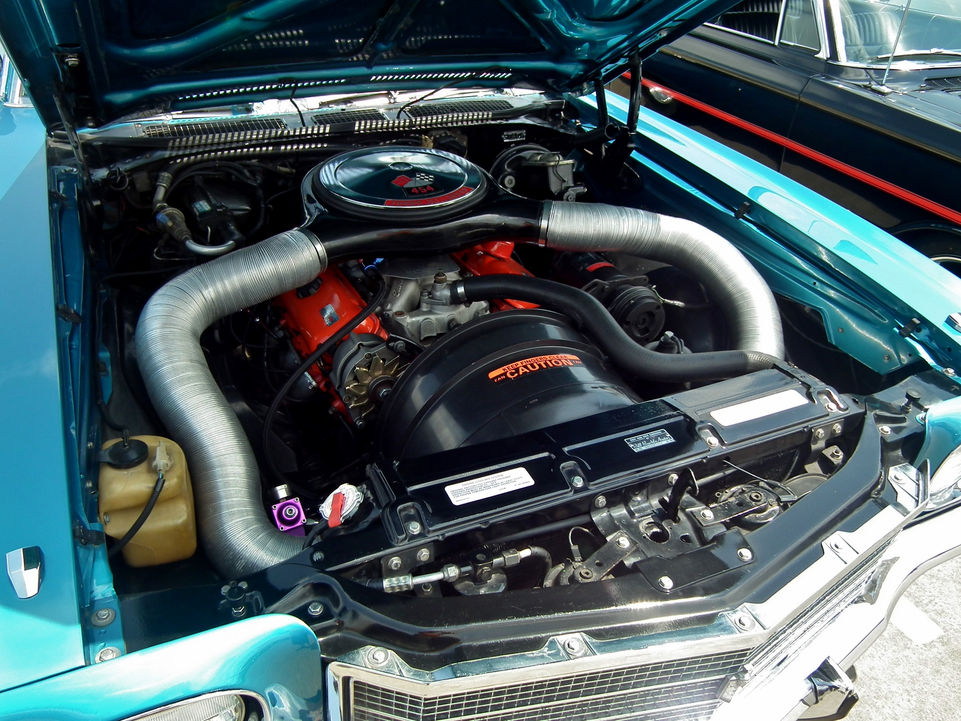 1970 Chevrolet Monte Carlo coupe engine. Taken at the 2014 New South Wales All American Day, held at Castle Towers Shopping Centre, Castle Hill, Sydney.